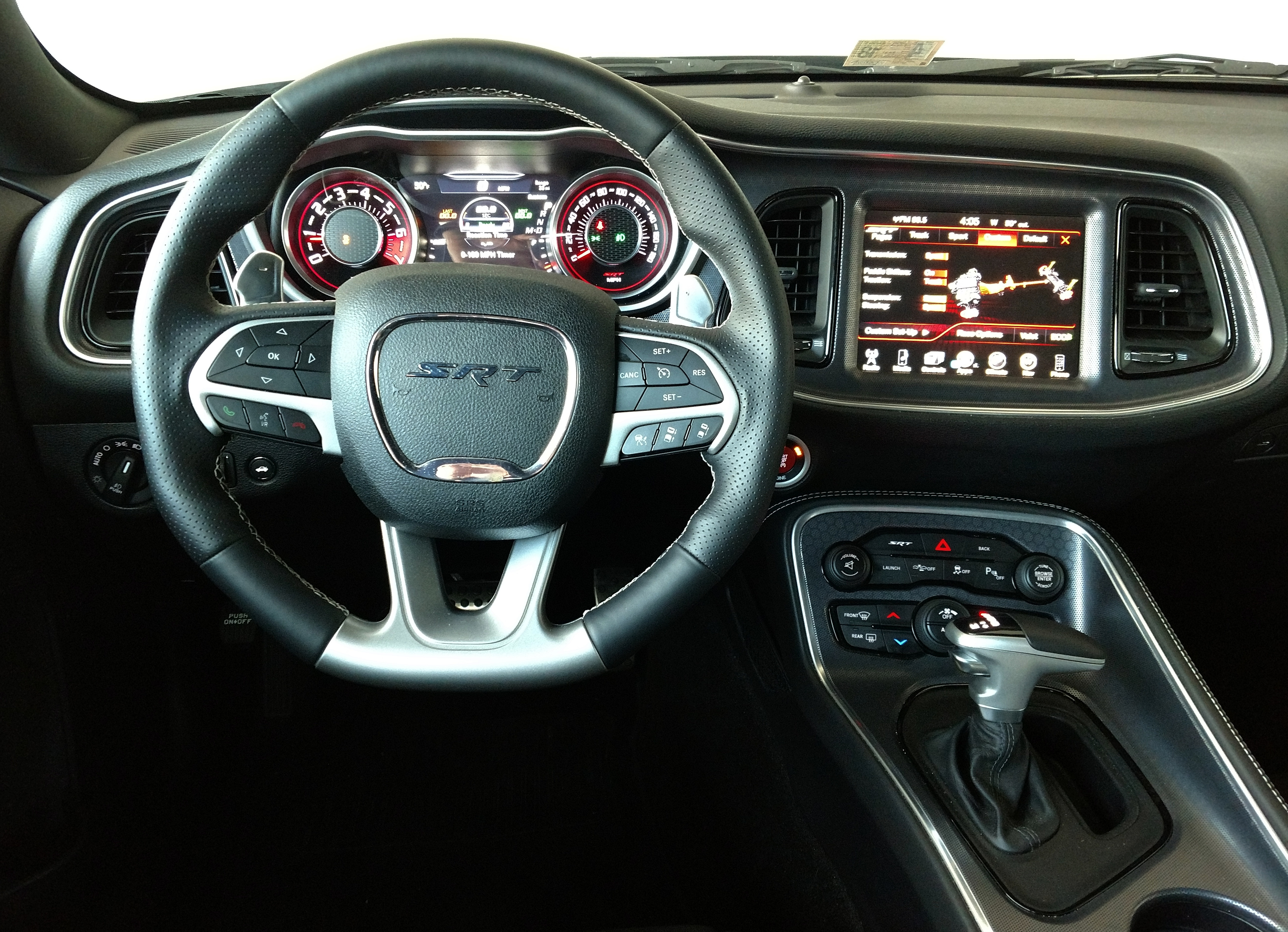 Image of a 2015 Dodge Challenger SRT 392 driver's position